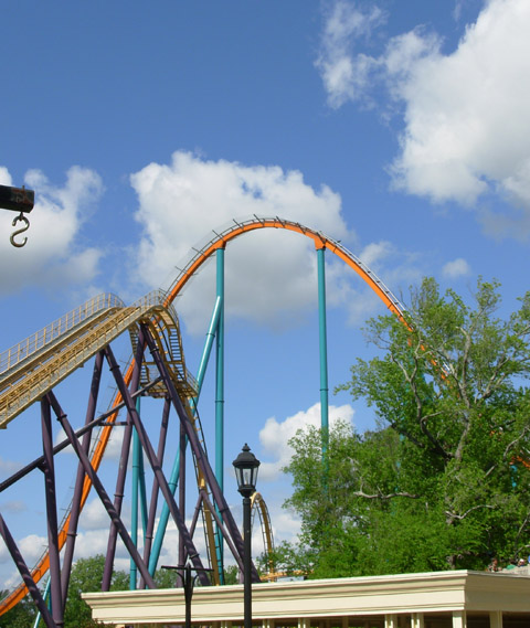 Created by Dustin B.